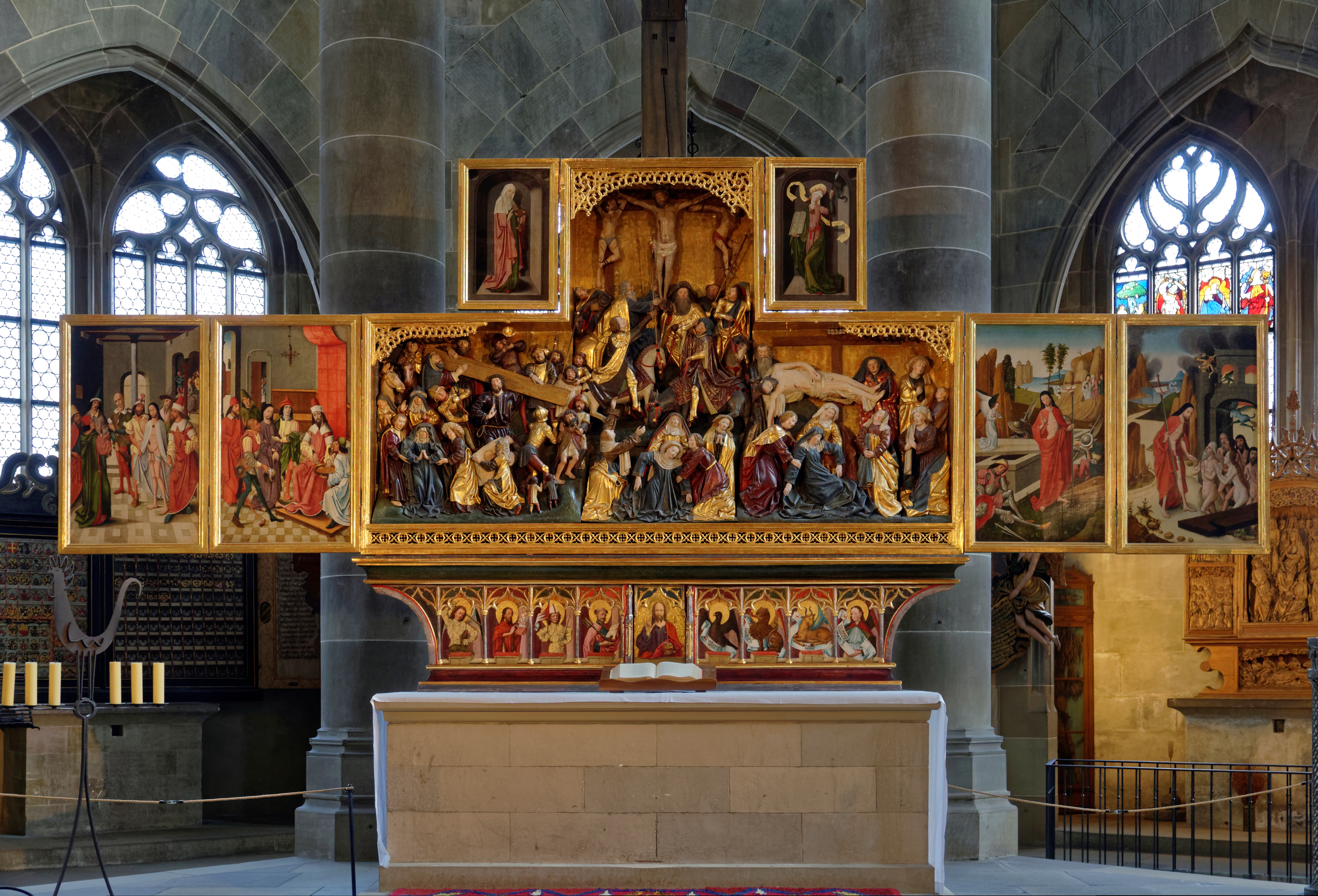 St. Michael`s Lutheran Church in Schwäbisch Hall.